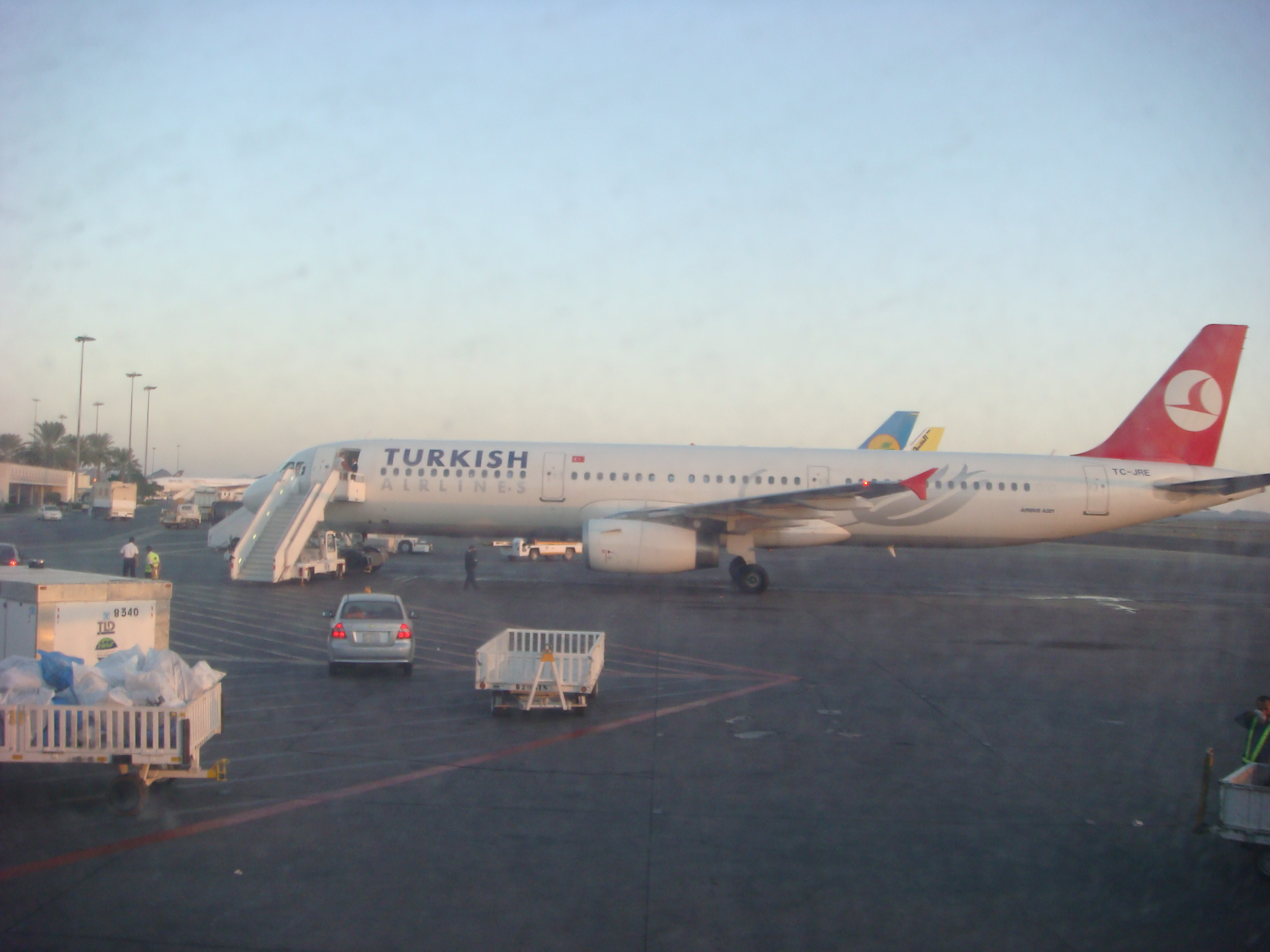 View of Apron on a early Friday morning during the Haj Season. In sight is a scheduled Turkish Airlines bound for Istanbul, with Haj Chartered Uzbekistan Airways, Sudan Airways, Egypt Air and Saudi Airlines in the back ground. Also seen in the picture is the International Arrivals Terminal.